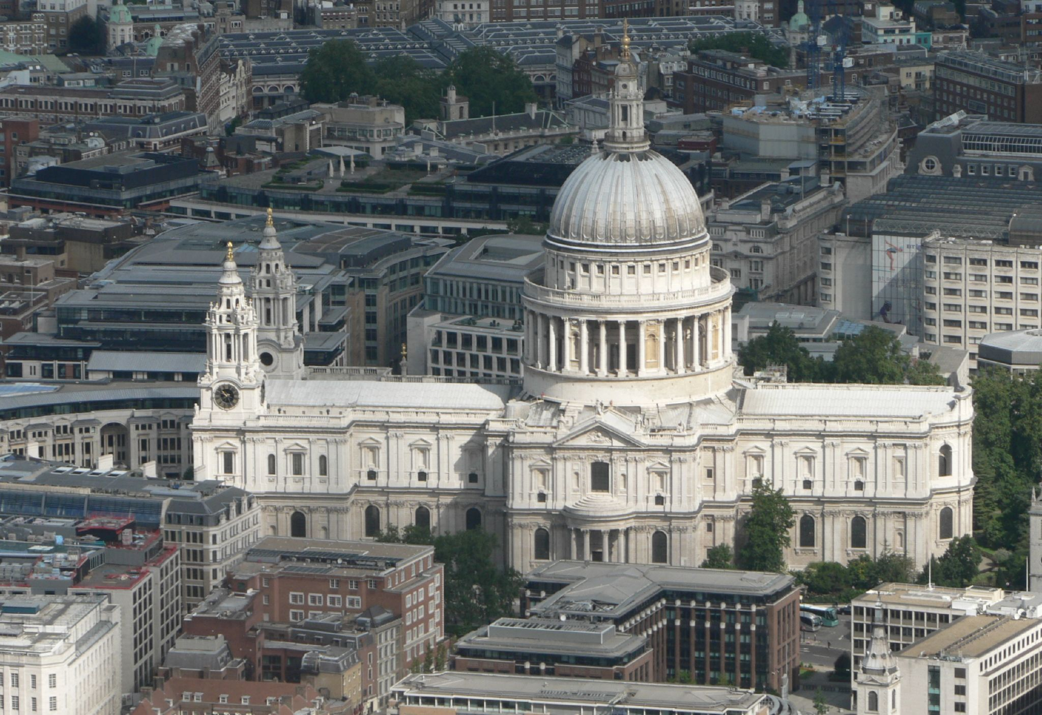 An aerial view of St Paul's Cathedral.